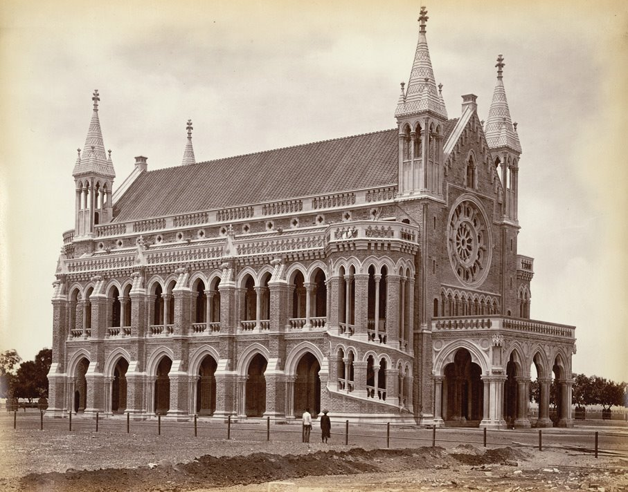 Photograph of the Bombay University Convocation Hall, taken by an unknown photographer in the 1870s in Bombay (Mumbai), Maharashtra, from an album of 40 prints mostly dating from the 1860s. Bombay, the capital of Maharashtra and one of India's major industrial centres and a busy port, was originally the site of seven islands on the west coast, sparsely populated by Koli fisherfolk. Bombay was by the 14th century controlled by the Gujarat Sultanate who ceded it to the Portuguese in the 16th century. In 1661 it passed to the English as part of the dowry brought to Charles II by the Portuguese princess Catherine of Braganza. By the 19th century Bombay was a prosperous centre for maritime trade and underwent an ambitious phase of building which resulted in a collection of some of the finest Victorian architecture in Asia. Much of Bombay's buildings were designed by architects living and working in Bombay. However, the Bombay University complex comprising two separate buildings, the Library (built 1869-78) and the Convocation Hall (built 1869-74), was designed by Sir George Gilbert Scott from his office in London, in the Decorated French style of the 15th century. The Convocation Hall, funded by the Parsi philanthropist Sir Cowasji Jehangir Readymoney, has a beautiful circular stained glass window, with a design of the signs of the Zodiac.